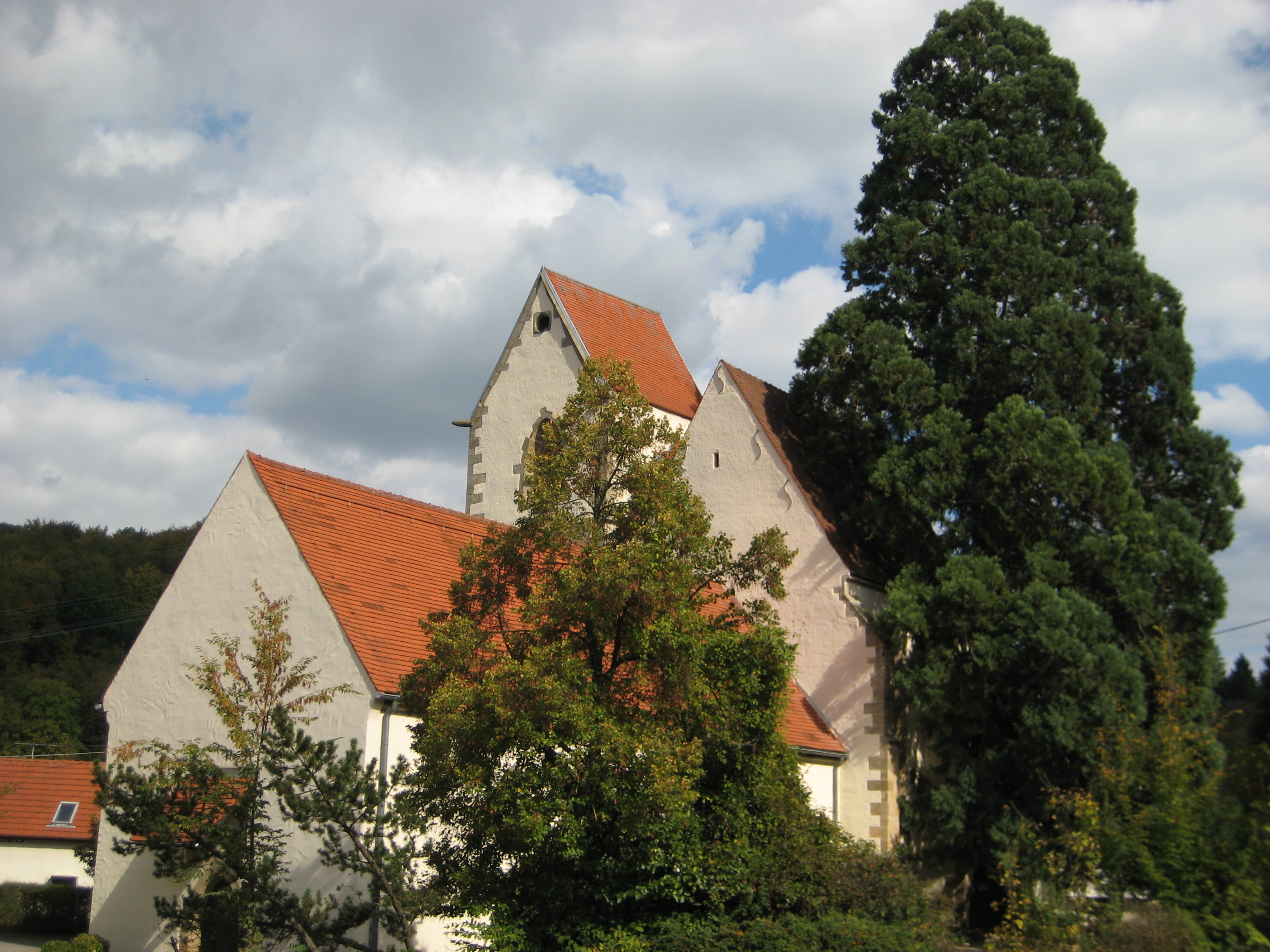 "Marienkirche" - Church of Reutlingen-Bronnweiler